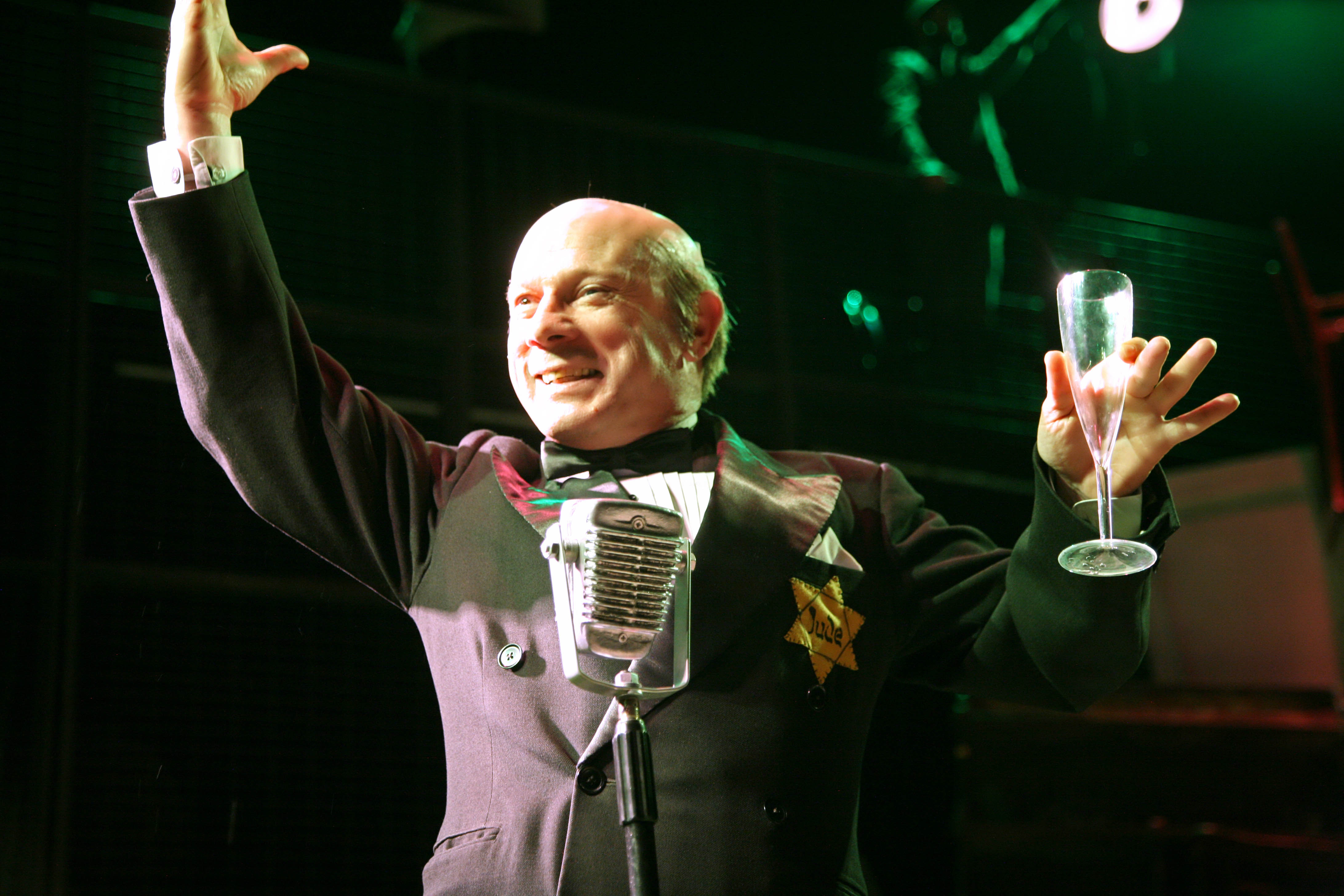 "Ghetto" by Yehoshua Sobol in the Cameri Theater, featuring Rami Barukh. Director: Omri Nitzan.